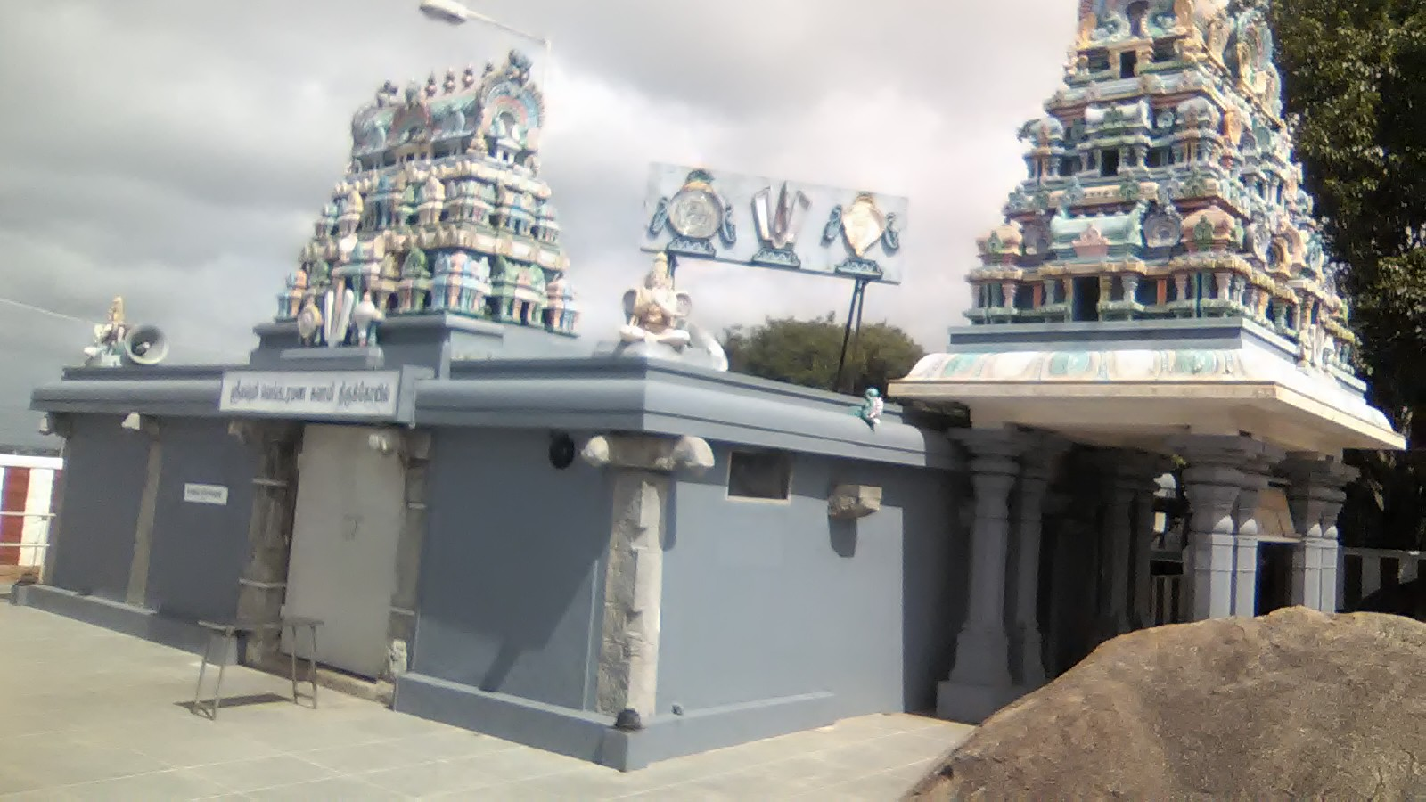 ஒசூர் வெங்கட்ரமண சுவாமி கோயில்